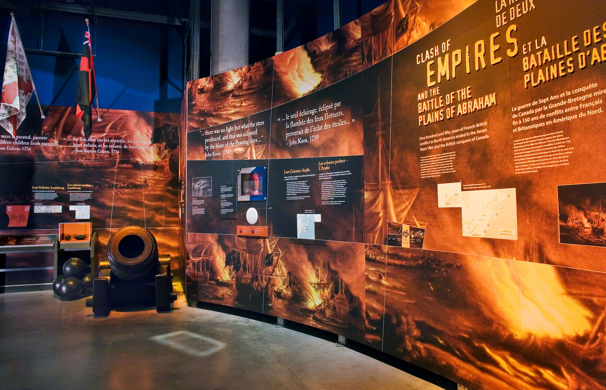 The Gallery 1 of the CWM